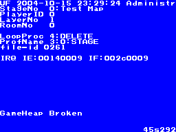 A screenshot of the blue screen of death in Super Mario 64 DS